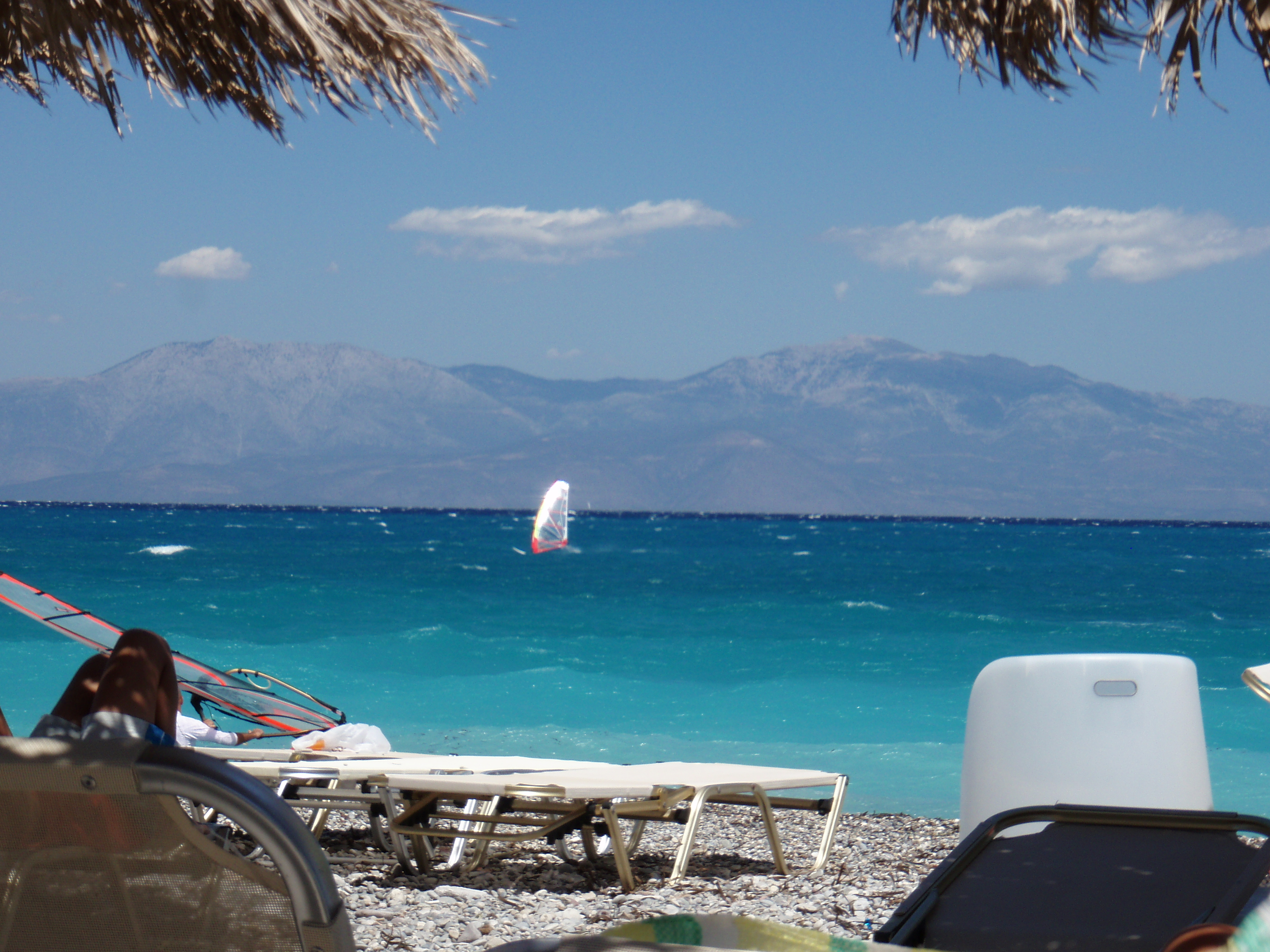 Beach in Kiato, Sikyona, Korinthia, Greece